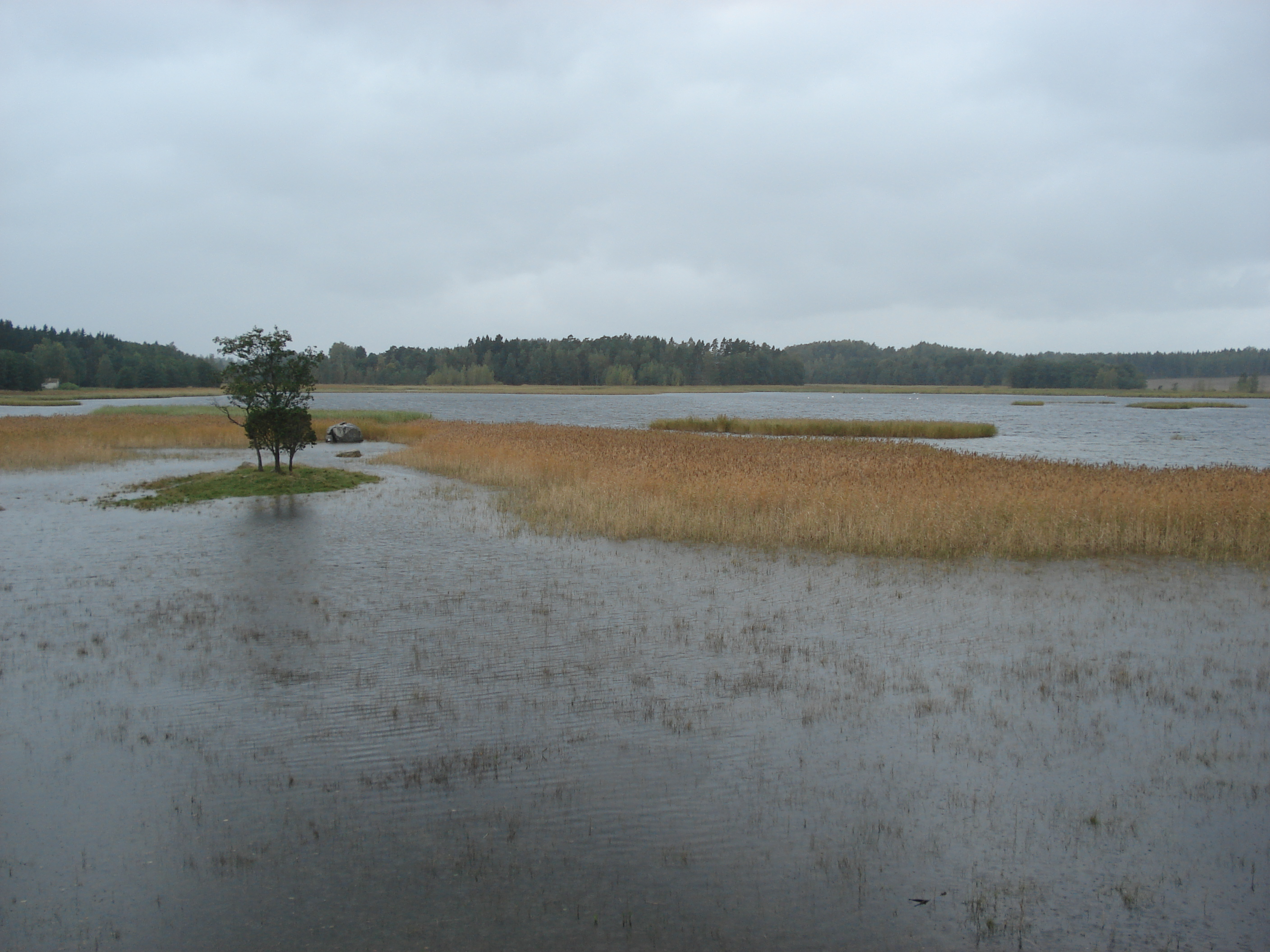 Mattholmsfladan bird watching tower in Parainen, Finland.